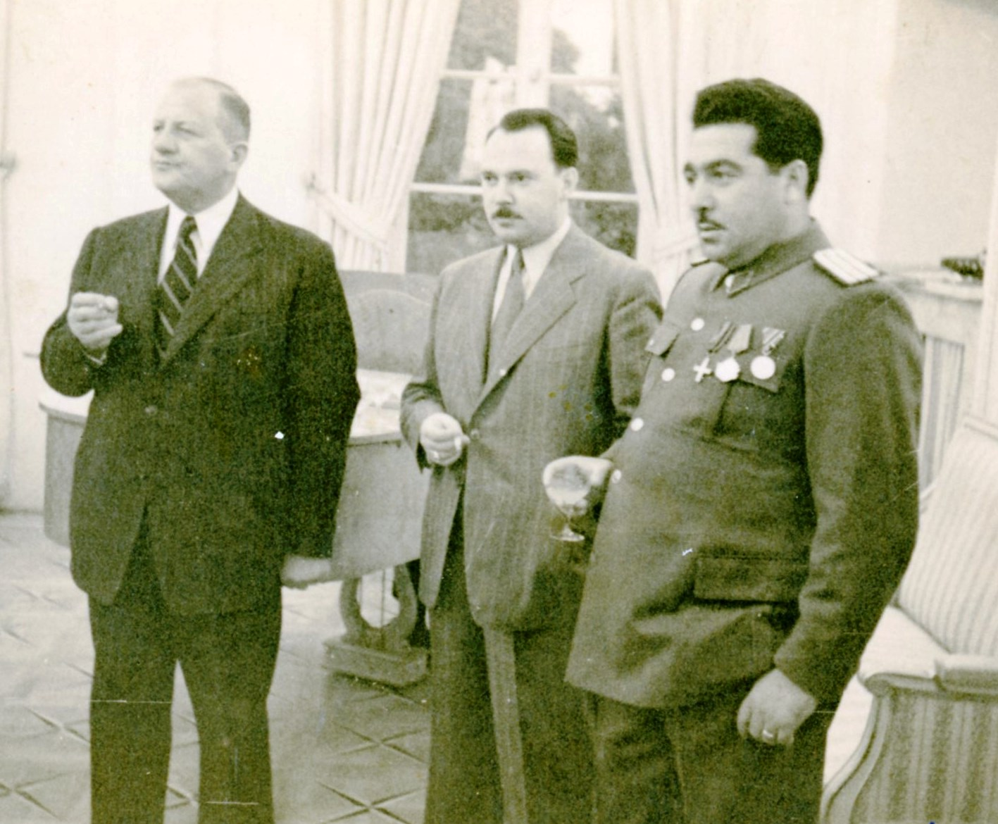 Viktor Meshulam as vice Military attaché of Jugoslavia in Turkey, stationed in Ankara